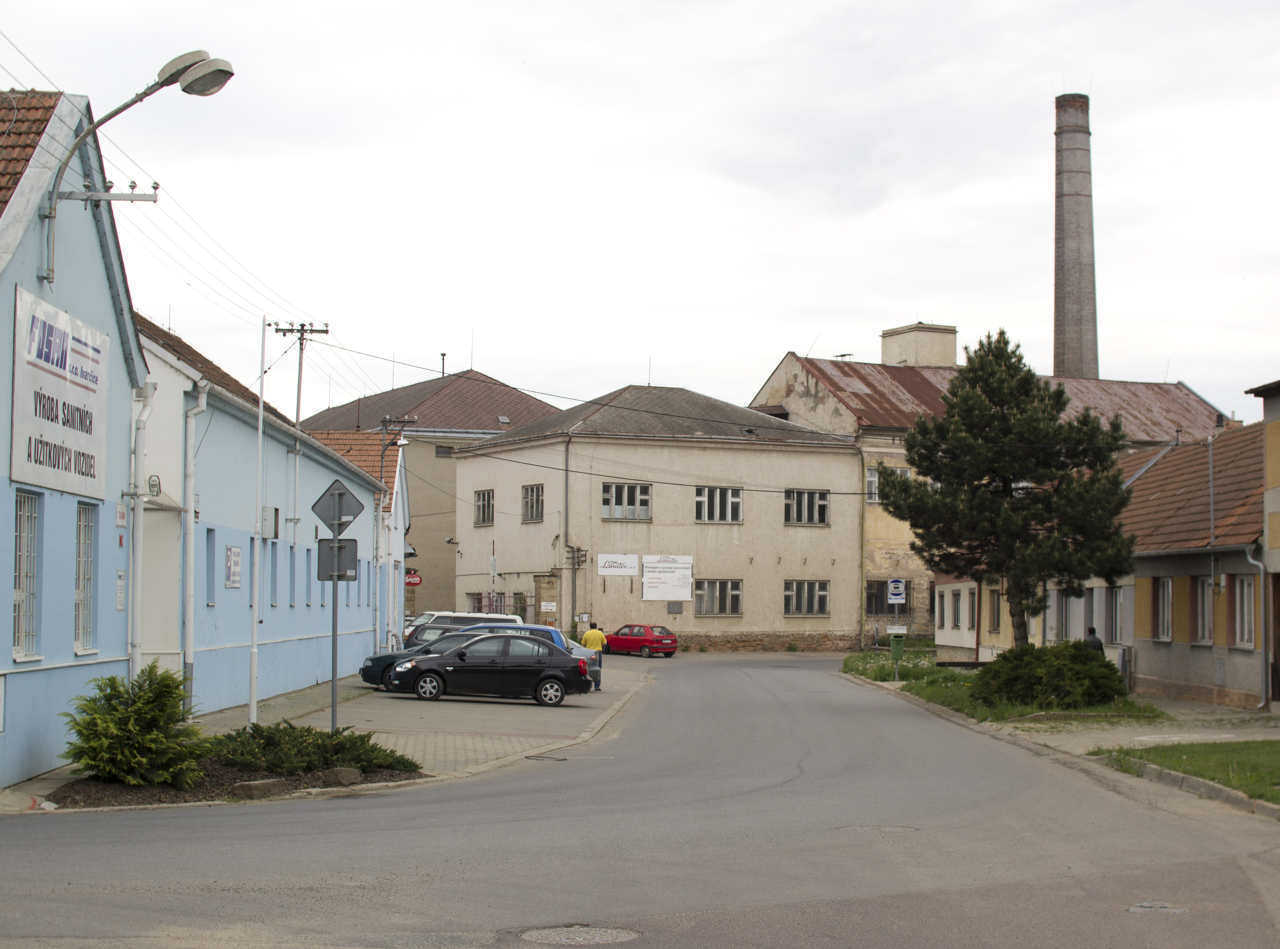 Alexovice, Ivančice, Brno-Country District, South Moravian Region, Czech Republic